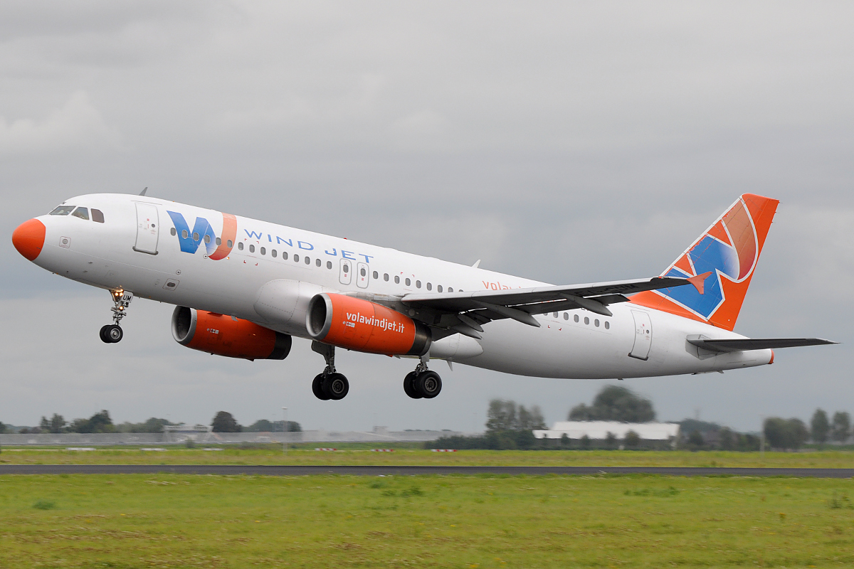 Windjet A320 taking off in Amsterdam-Schiphol Airport